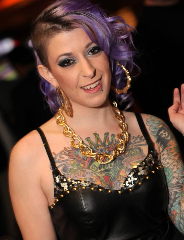 Miss Genocide (TheMissGenocide) on Twitter Photos from the 2013 AVN Awards held at the at the Hard Rock Hotel & Casino in Las Vegas. Please provide photographer credit when using, tweeting, etc... Photo by Michael Dorausch This photo is licensed under a Creative Commons license. If you use this photo within the terms of the license or make special arrangements to use the photo, please list the photo credit as "Michael Dorausch" and link the credit to . Thank you to everyone for being so accommodating during the days I took photos, it's much appreciated.